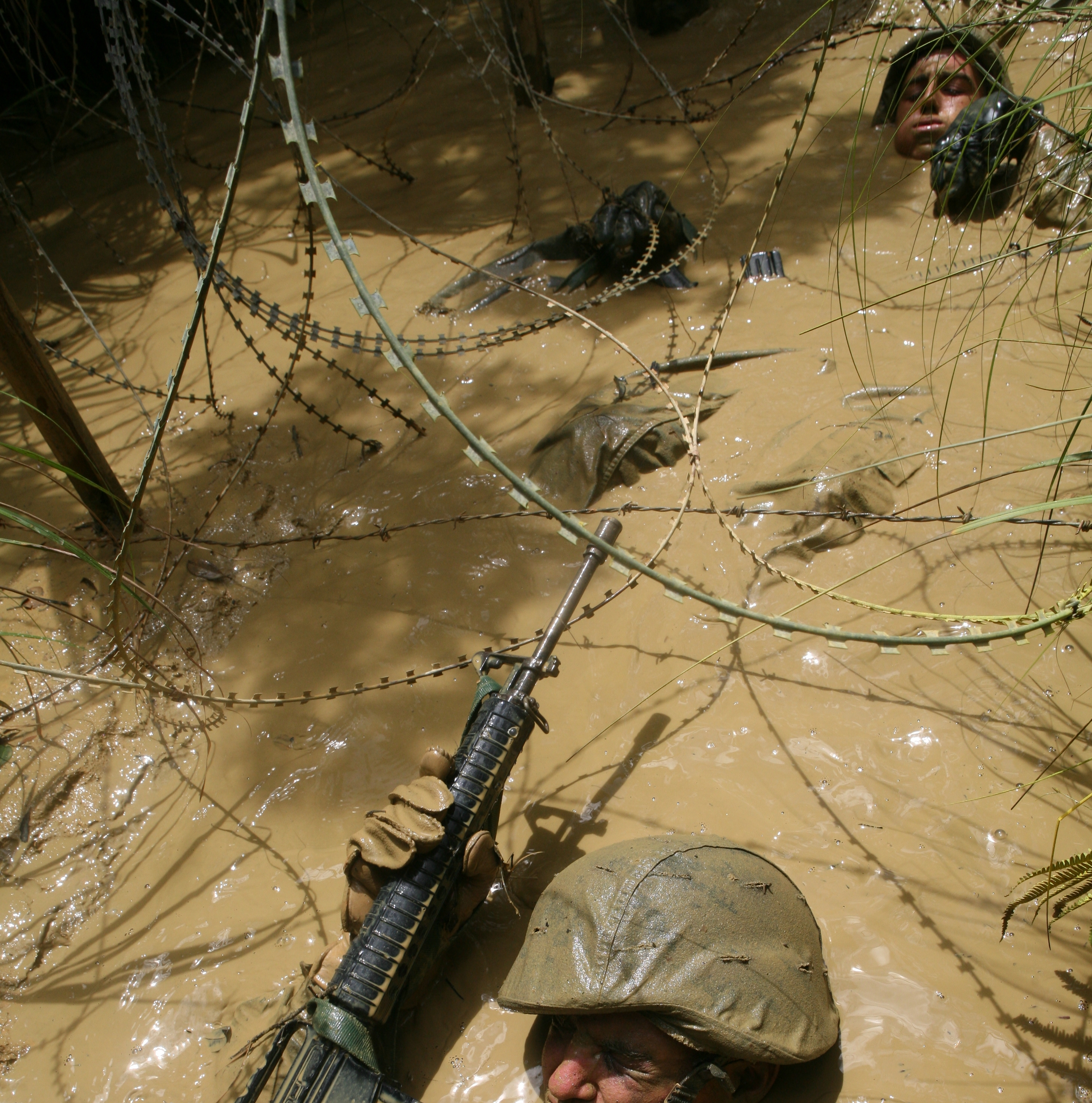 U.S. Marine Corps Pfc. Ross Simpson, with 7th Communications Battalion, advances through an obstacle course at the Jungle Warfare Training Center (JWTC) on Camp Gonsalves, Okinawa, Japan, Aug. 21, 2009. JWTC training shows service members how to become effective war fighters in a jungle environment by teaching them land navigation, small unit leadership, patrolling and obstacle maneuvering.